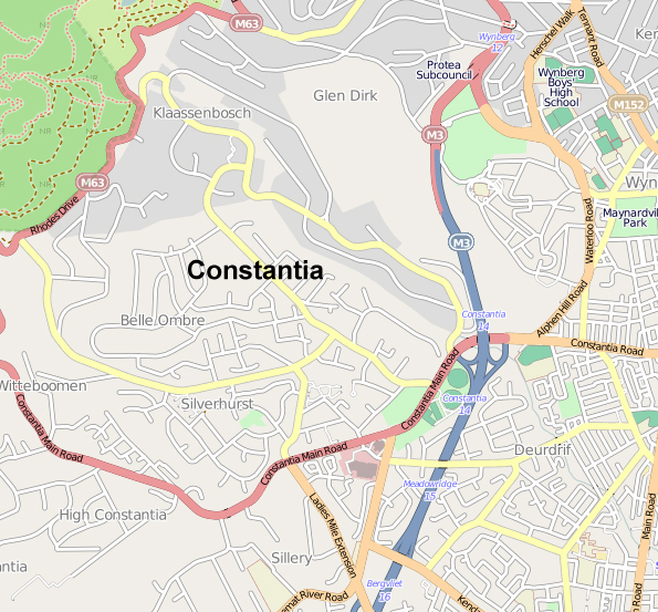 This map of Constantia in Cape Town was created from OpenStreetMap project data, collected by the community This map may be incomplete, and may contain errors. Don't rely solely on it for navigation.